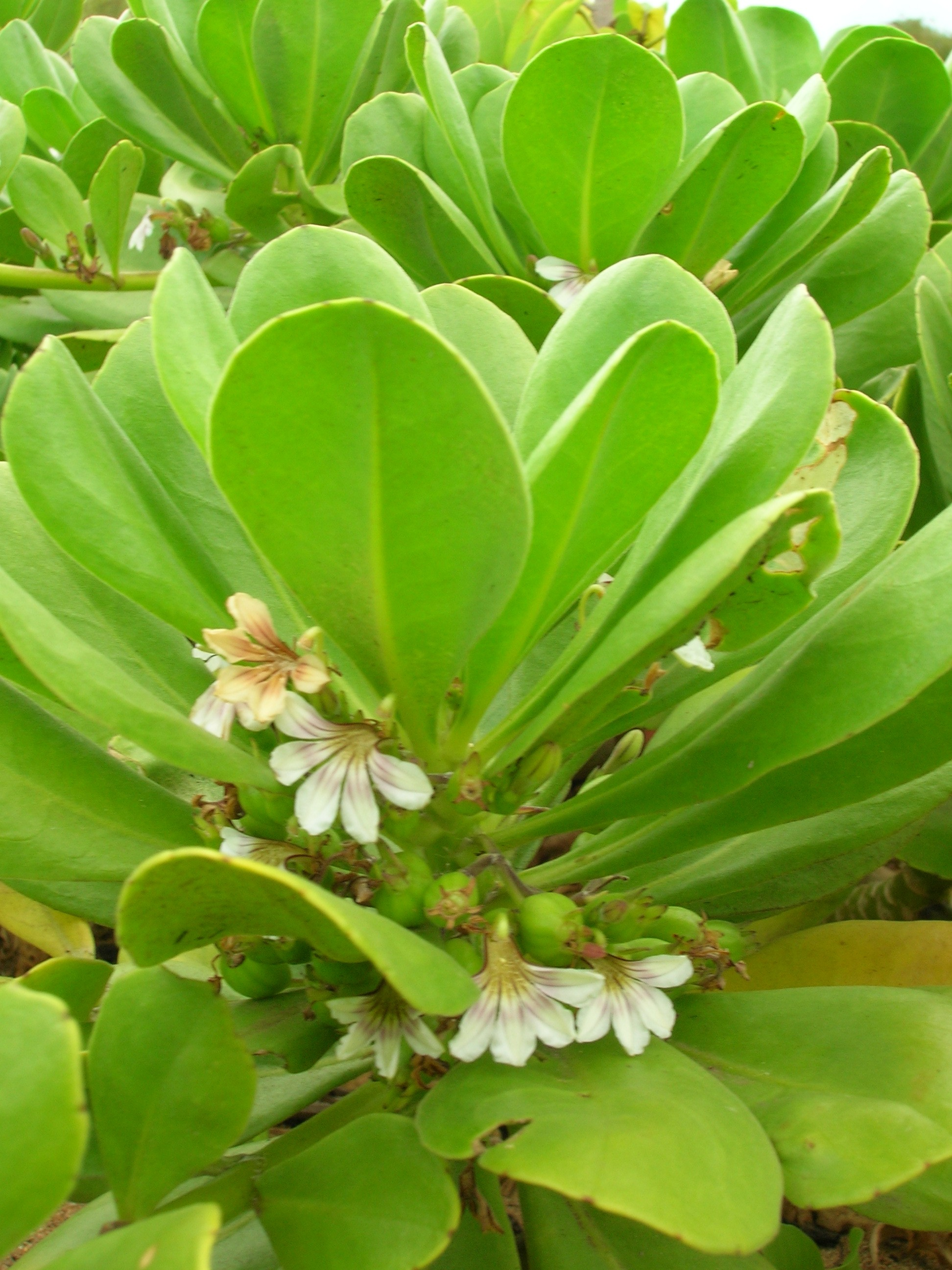 Scaevola taccada (flowers). Location: Maui, Kanaha Beach